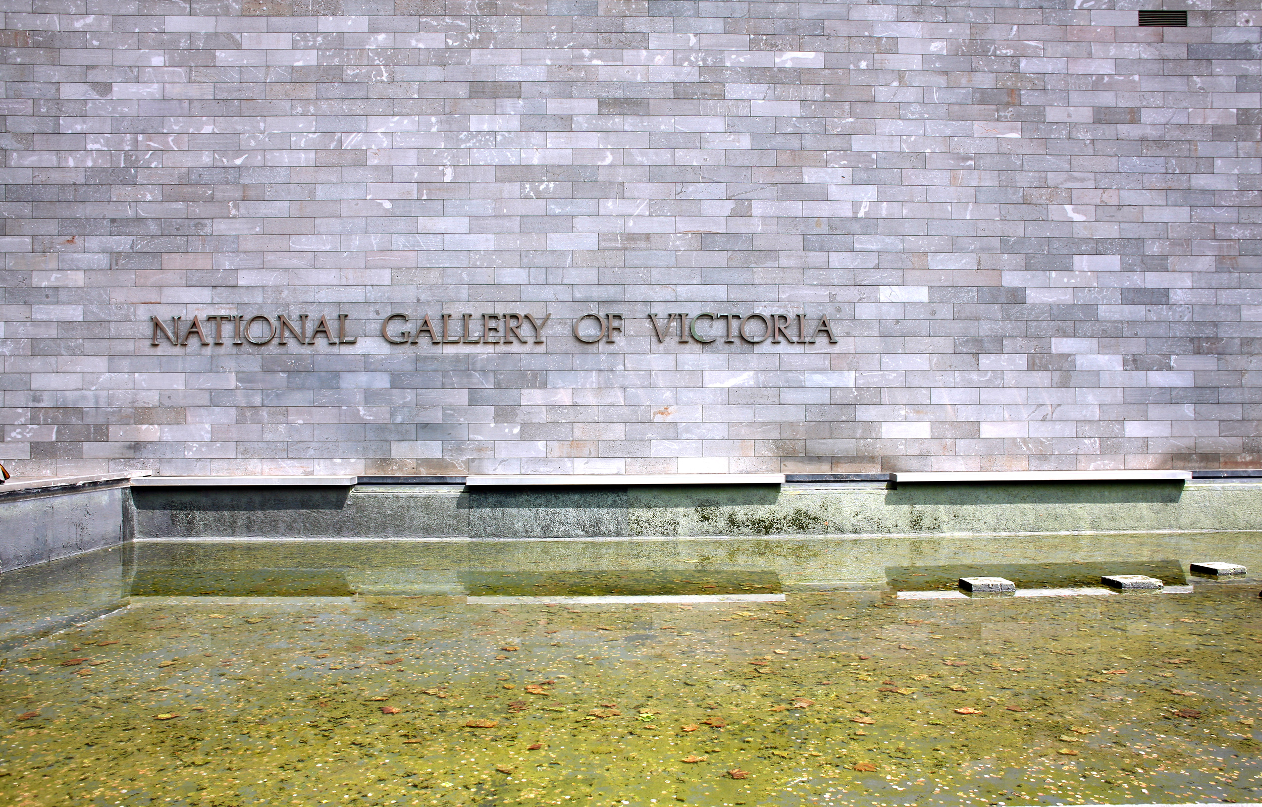 Main entrance of the national gallery of victoria